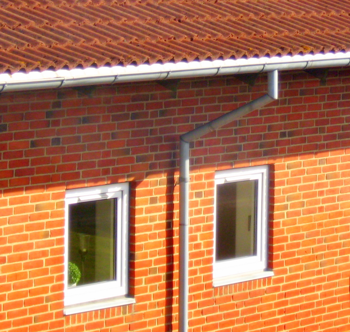 Rain gutter / roof tiles / brick wall / windows / eaves